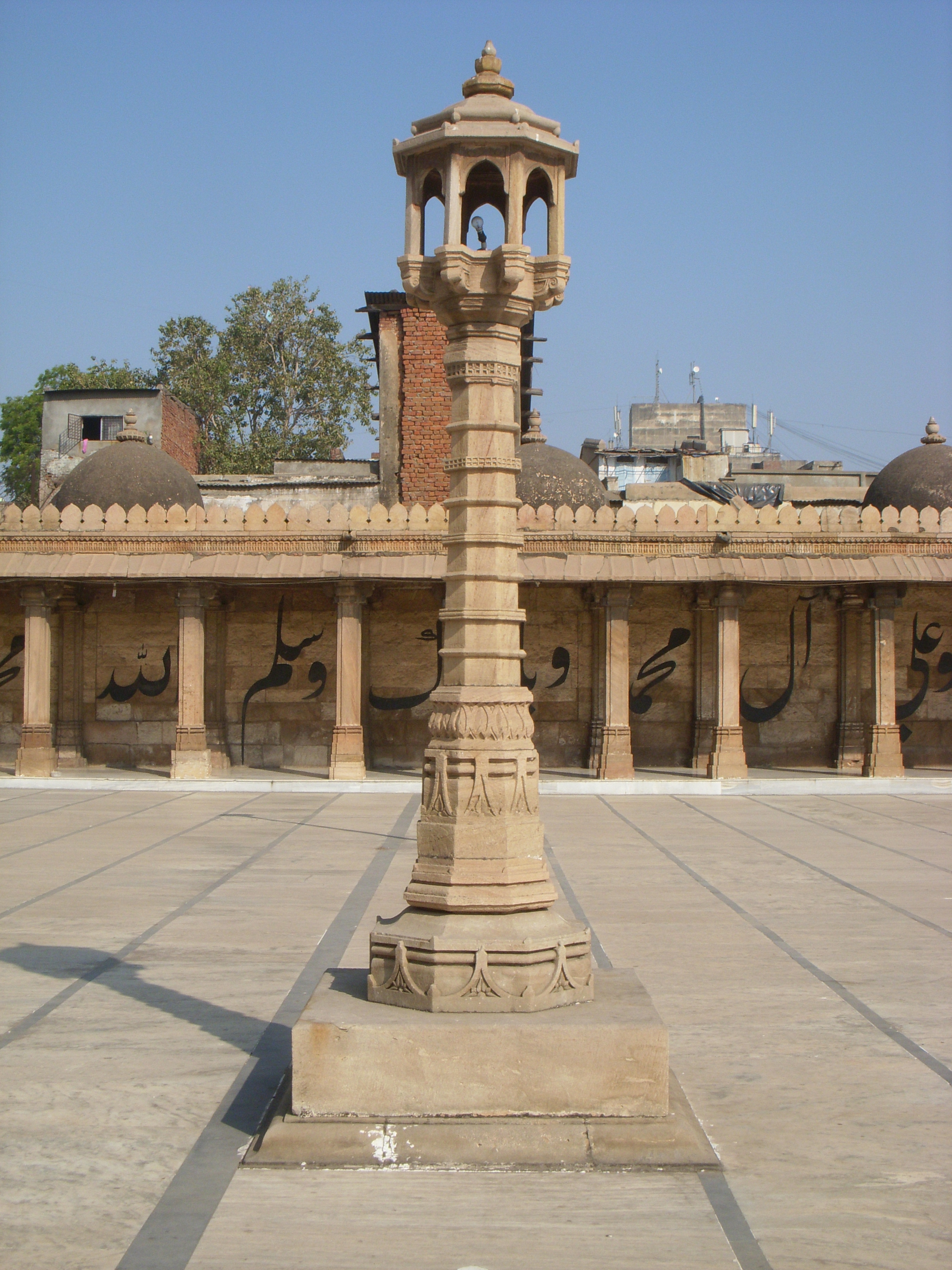 Pole used to enlighten the Jami mosque at night in ancient times.